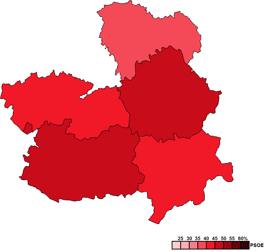 Provincial results for the 2019 Castilian-Manchegan regional election.